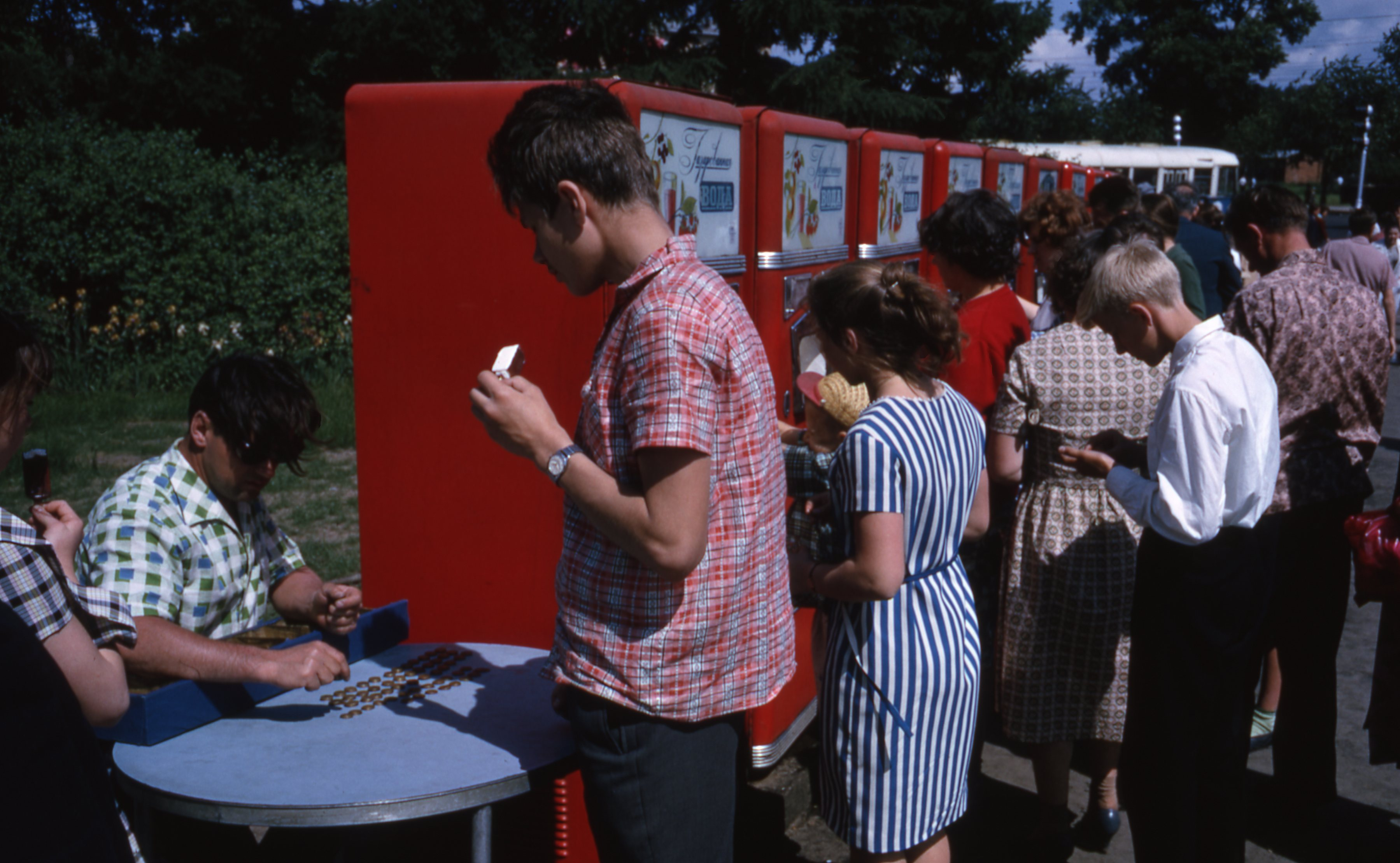 These photos were taken by Thomas T. Hammond during his trip to Central Asia in the Soviet Union. The photos are unlabeled, so the exact locations and people are unknown. This specific image features a young man buying ice cream in front of soda water machines.